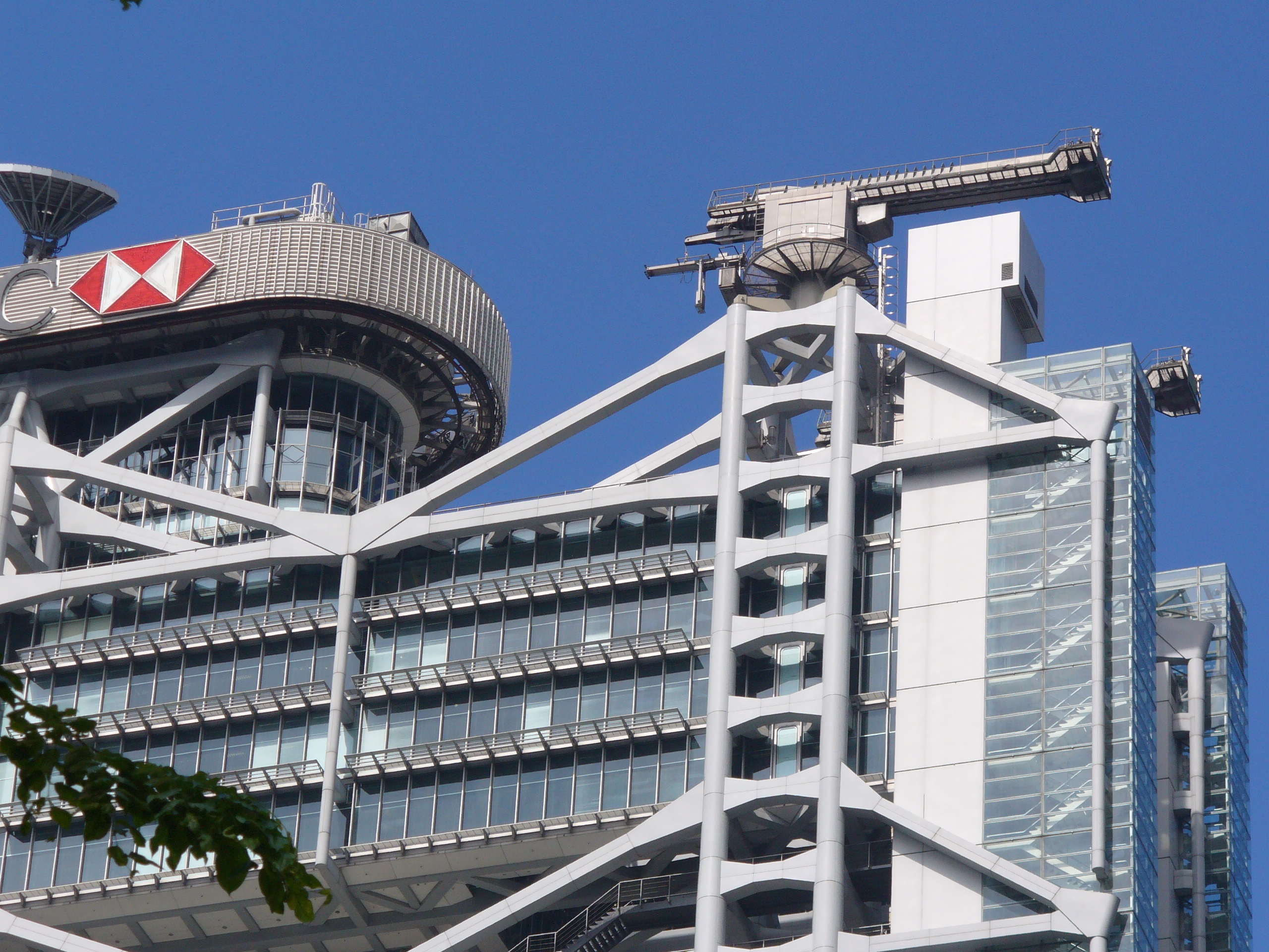 This photo was taken by David Drascic on 3 Nov 2005. According to the CBC "Doc Zone" episode "Superstitious Minds", first broadcast on 30 Oct 2014, these cannons atop the HSBC Building in Hong Kong were installed to balance the bad feng shui of the knife shape of the nearby Bank of China building!